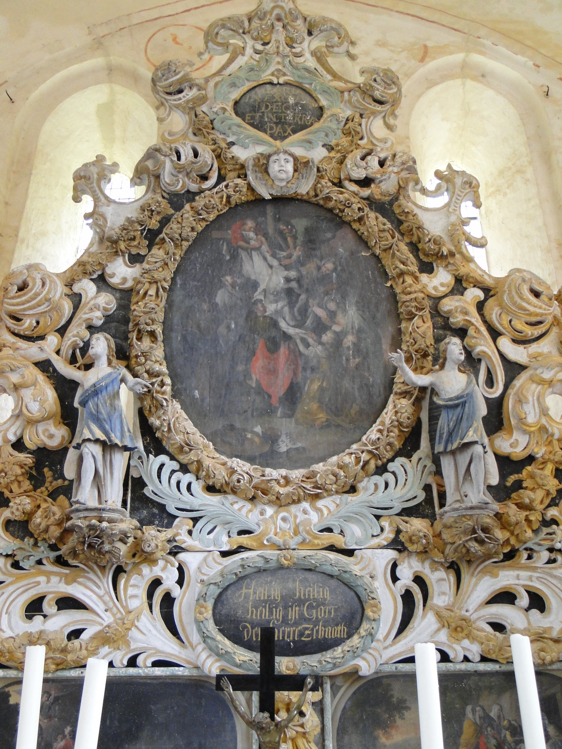 Altar picture in the church in Ruchow in the district Parchim, Mecklenburg-Vorpommern, Germany